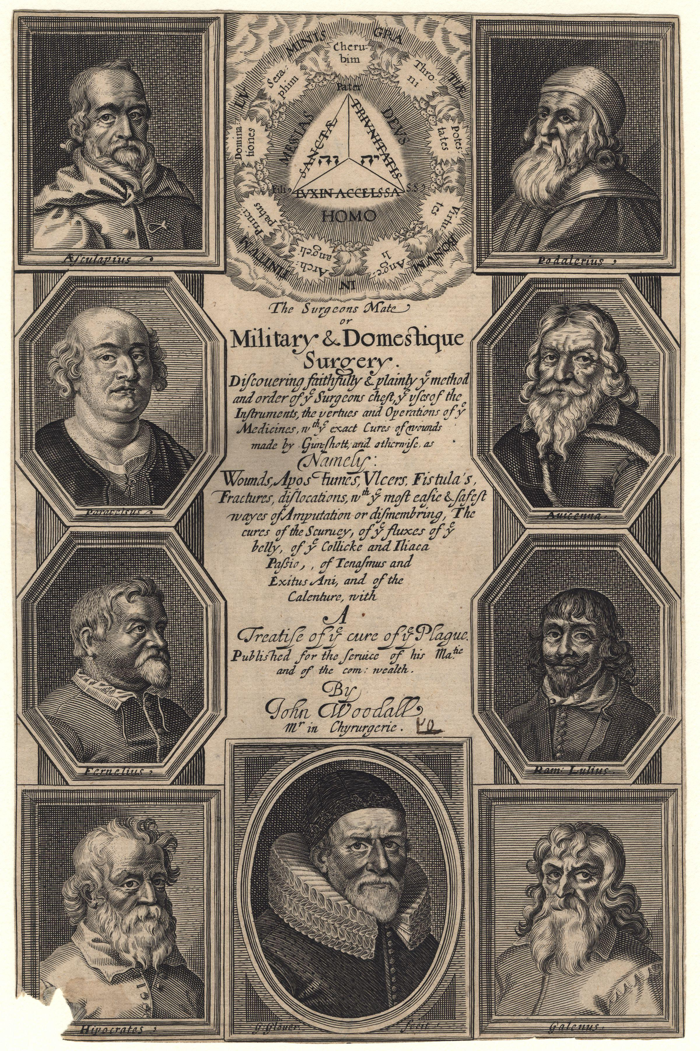 John Woodall, by George Glover (floruit 1650), published 1639. According to the NPG's website the work was published prior to 1859, and so the author is reasonably presumed dead by 1939.